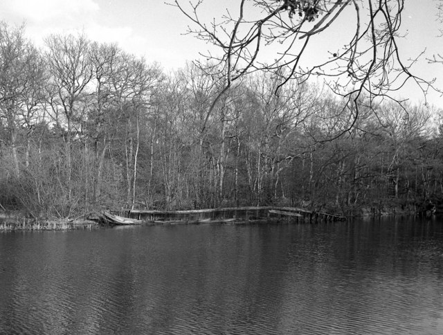 Remains of old boat near Mytchett Lake, Basingstoke Canal Only the ribs remain but this boat may have been of archaeological interest.